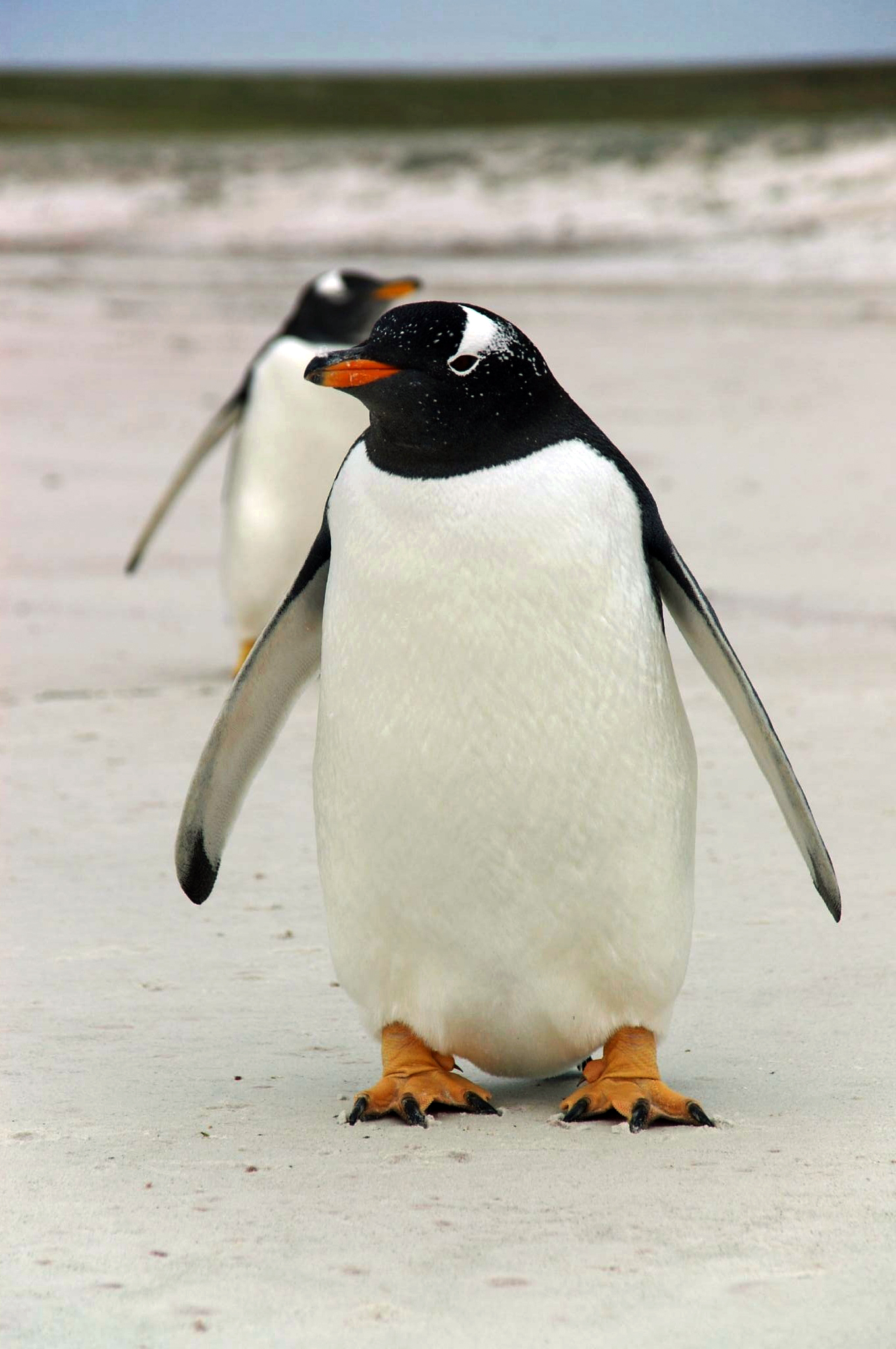 Gentoo Penguins (Pygoscelis papua), East Falkland